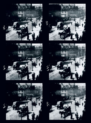 1923 (National Science Museum, London) frames copy of Louis Le Prince's 1888 Leeds Bridge. Courtesy of the National Media Museum, Bradford.